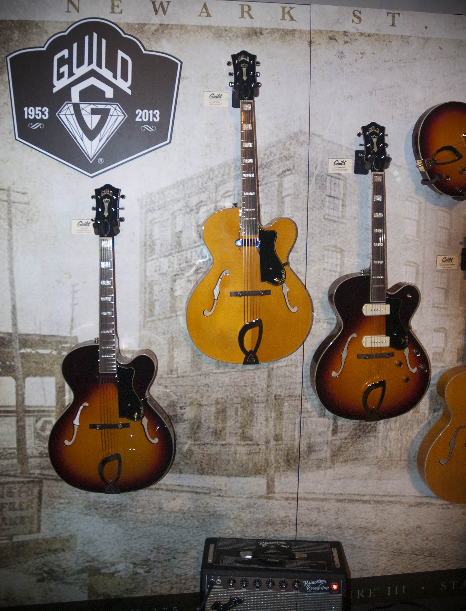 New Guild hollowbodies, NAMM 2013 Newark St.™ Collection A-150 Savoy (Antique Burst) A-150 Savoy (Blonde) X-175 Manhattan (Antique Burst)